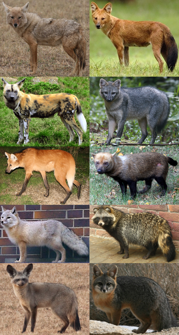 Golden jackal in Ngorongoro Crater, Tanzania. Photo by Lee R. Berger